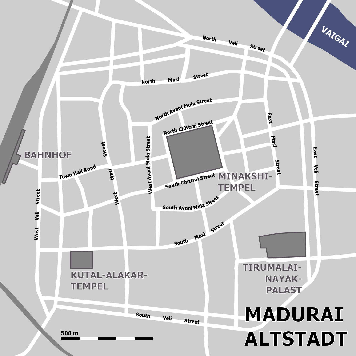 Map of the old city centre of Madurai, Tamil Nadu, India. German texts. Only the most important streets are shown.